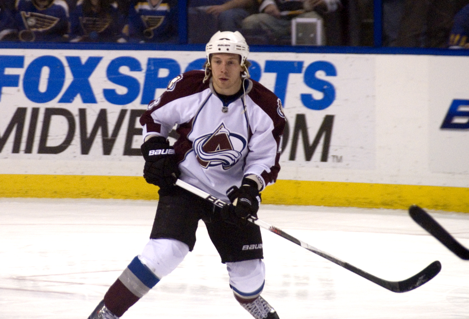 This photo was taken on February 22, 2011 using a Nikon D200.